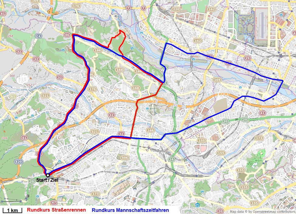 Map of Hachiōji-Rundkurs, JapanThis map of Tokio was created from OpenStreetMap project data, collected by the community. This map may be incomplete, and may contain errors. Don't rely solely on it for navigation.